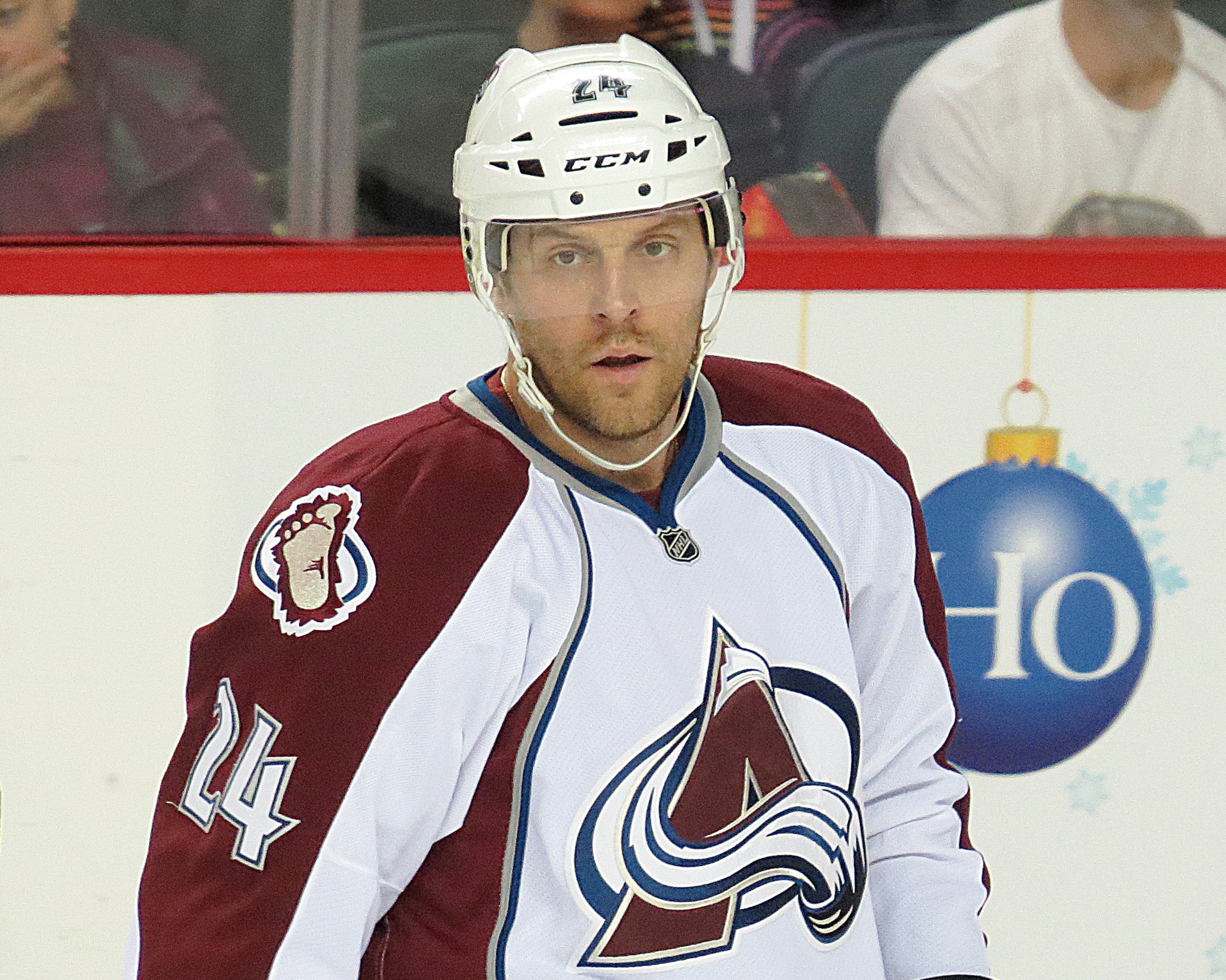 Marc-André Cliche of the Colorado Avalanche during the 2013–14 season.